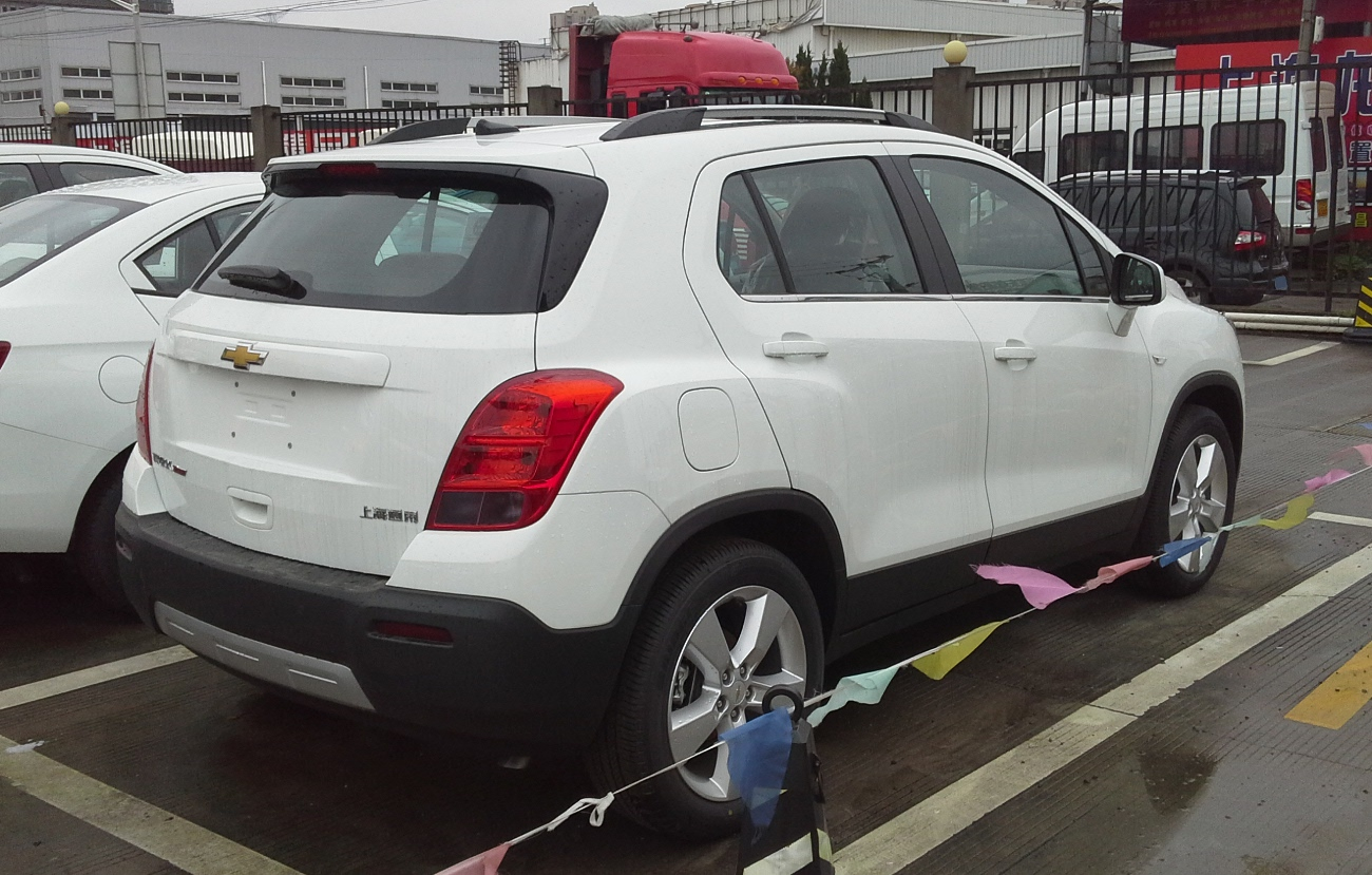 Chevrolet Trax photographed in Shanghai, China.